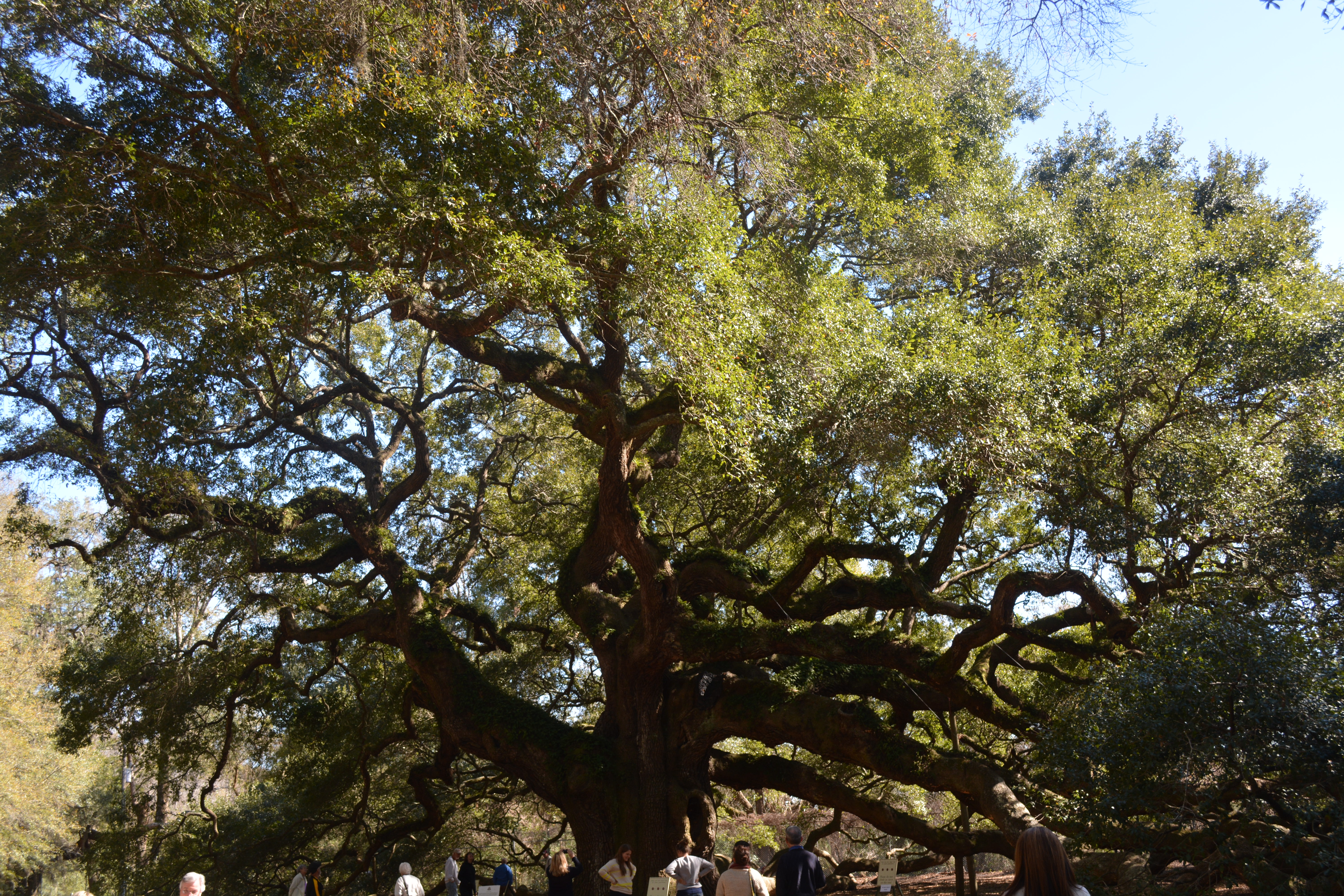 This historic tree is a tourist attraction for people visiting the South Carolina Area.